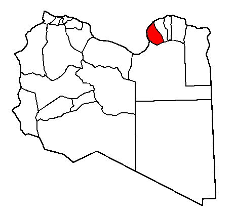 map of Libya with Shabiat Banghazi highlighted